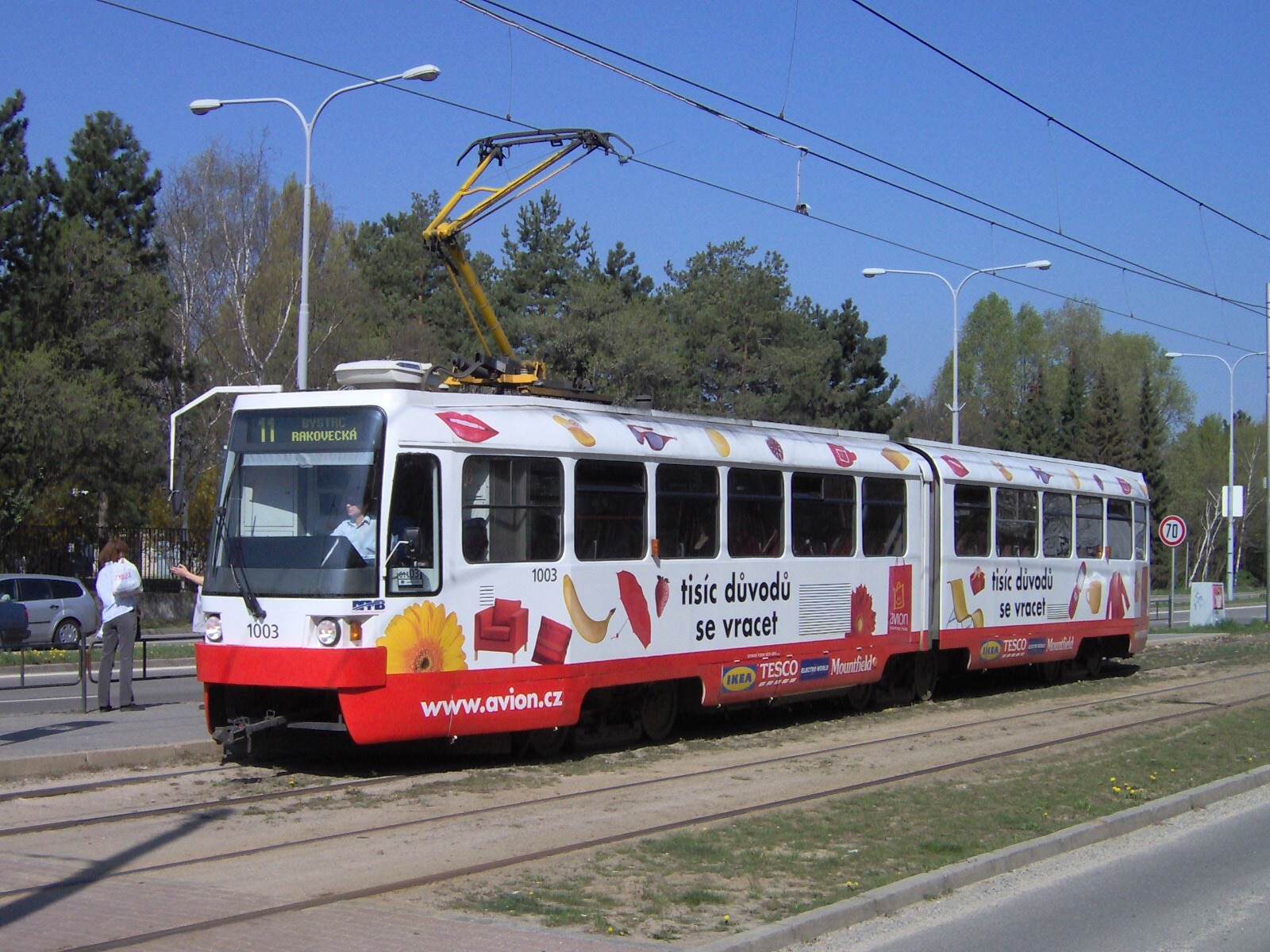 Tramway Tatra K2R, Brno, Czech Republic